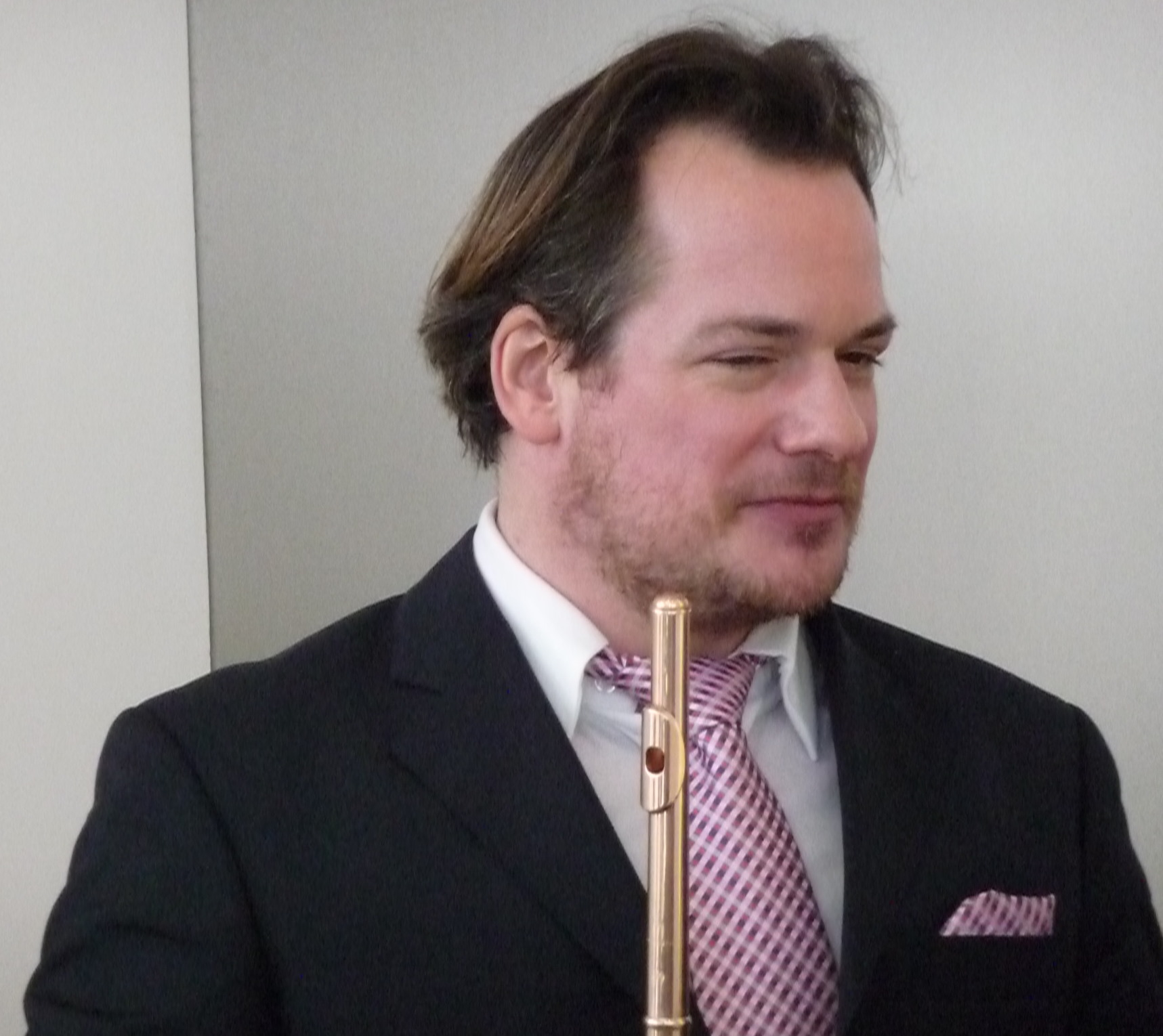 Emmanuel Pahud, swiss flutist